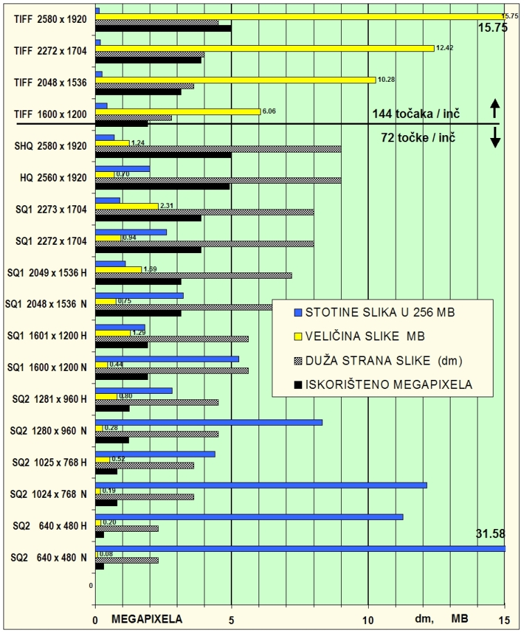 Resolution depend of picture quality